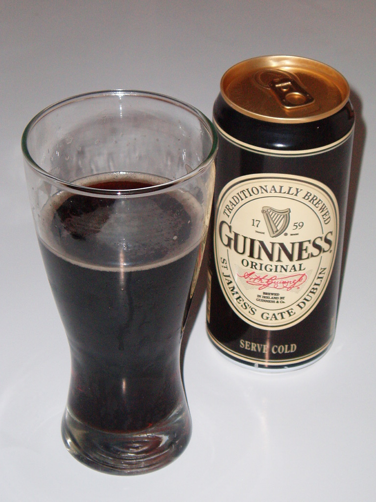 Can of Guinness Original, plus the beer in a glass